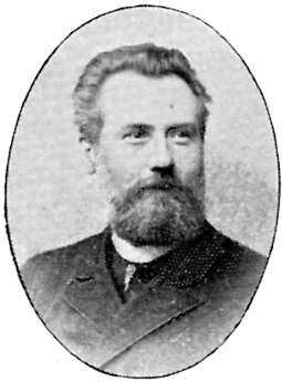 Image scanned from the book "Svenskt Porträttgalleri XX - Arkitekter, Bildhuggare, Målare m.fl. " ("Swedish Portrait Gallery XX - Architects, Sculptors, Painters, ") published 1901